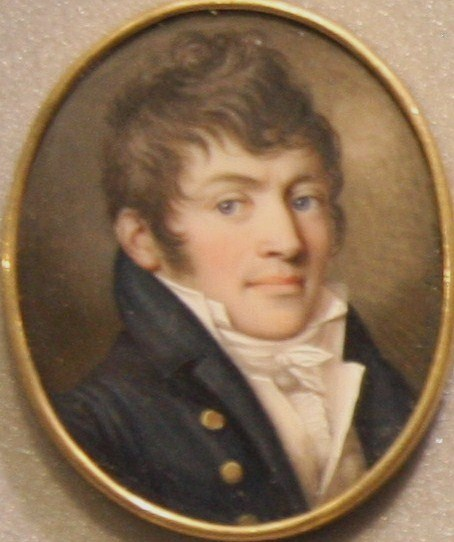 Bernhard Henrik Crusell (1775-1838), swedish composer and clarinettist.